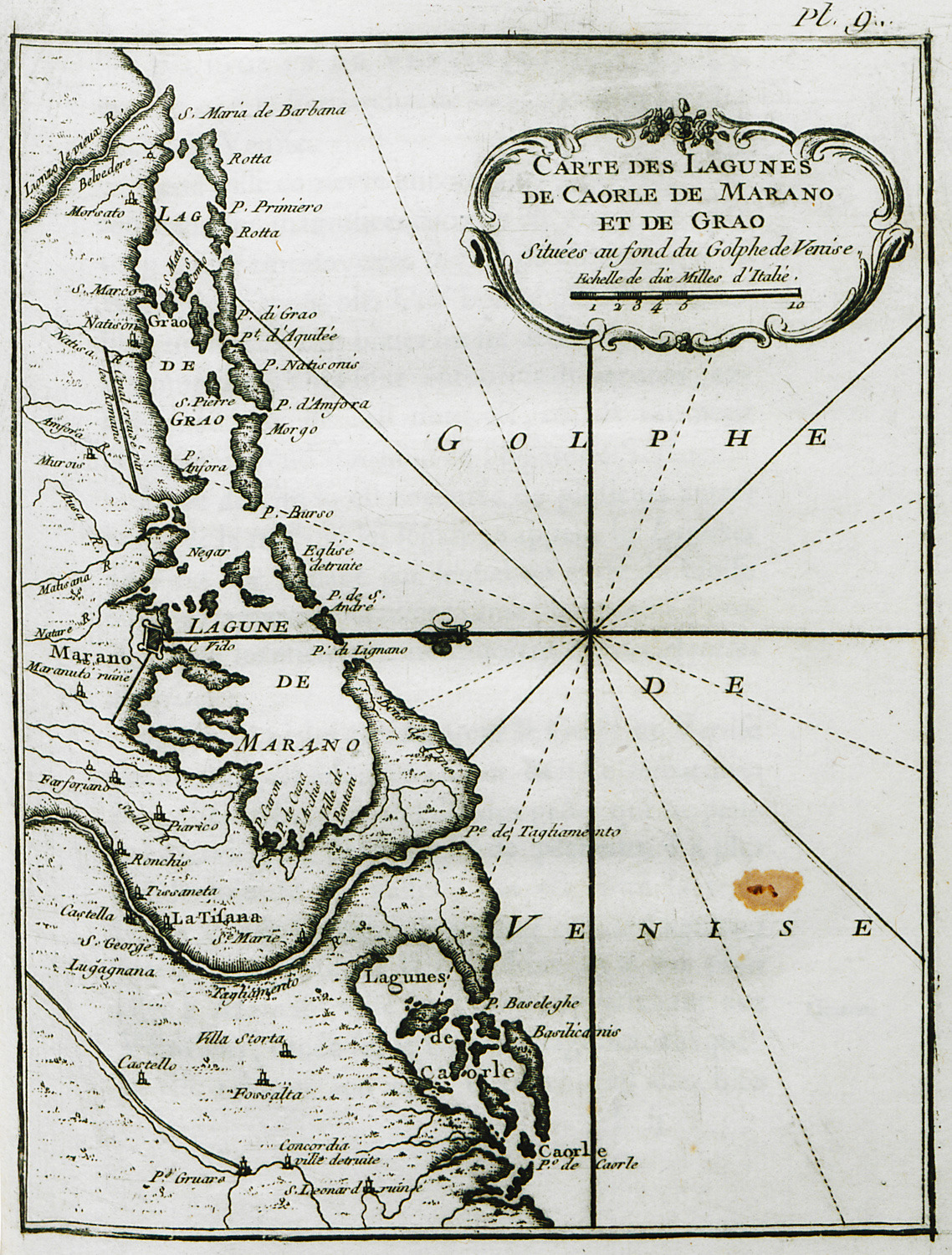 Carte des lagunes de Caorle, de Marano et de Grao - Bellin Jacques-nicolas - 1771